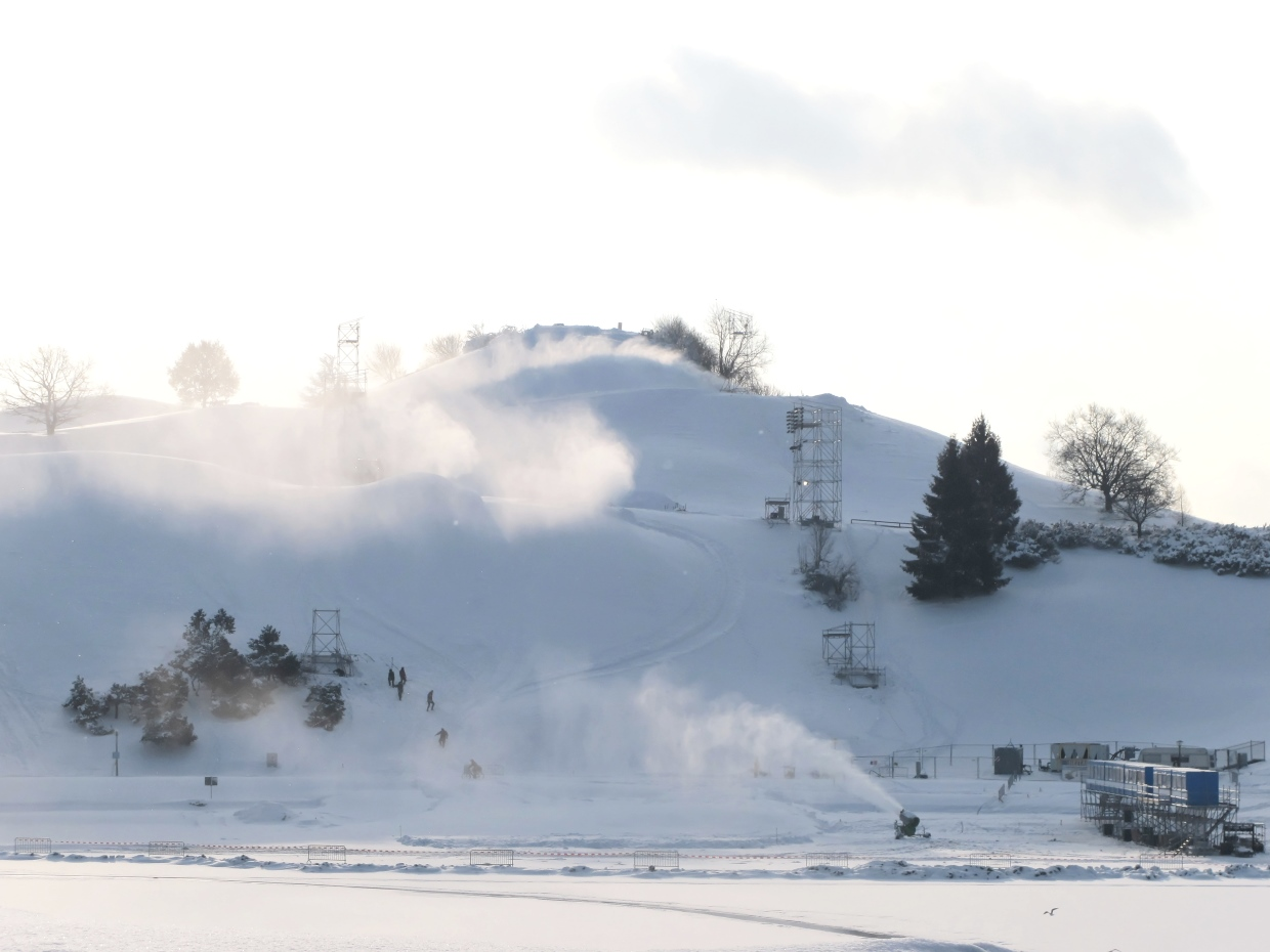 Munich, Olympic Park, Olympic Mountain